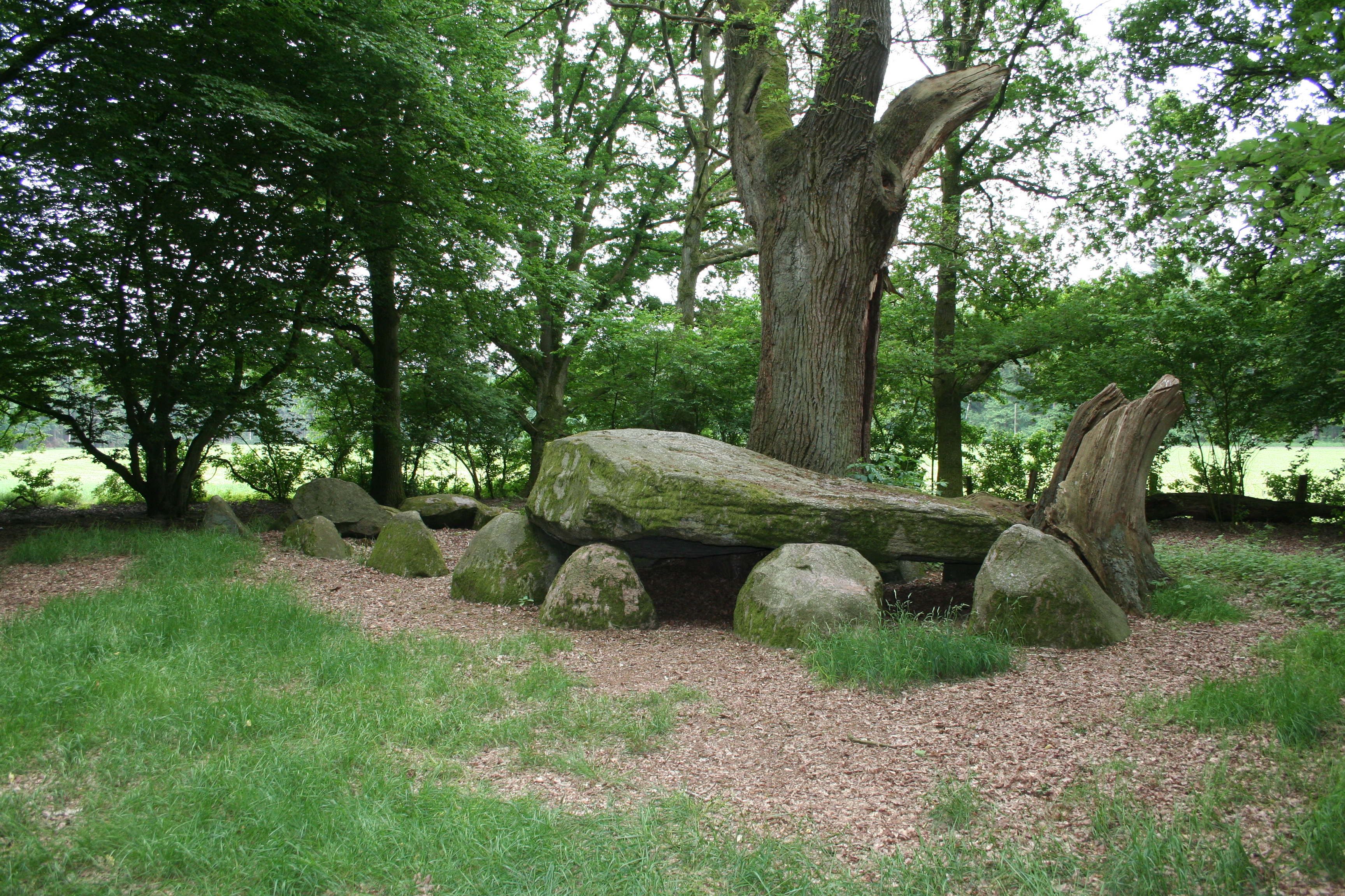 Megalithic tomb “Heidenopfertisch” at Engelmannsbäke